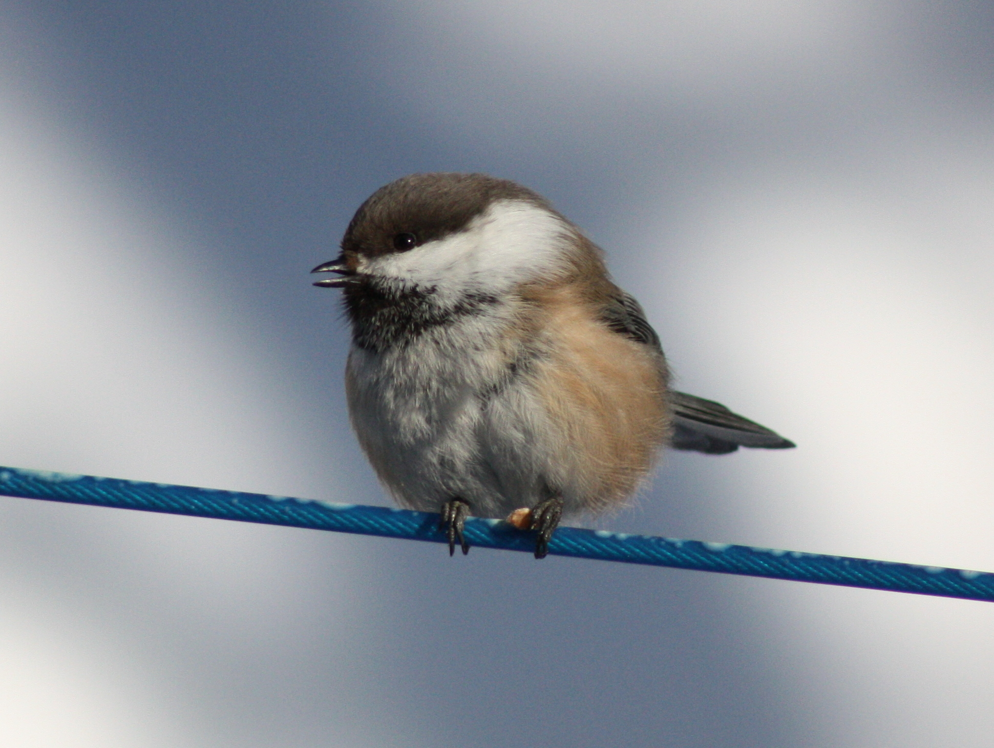 A siberian tit (Poecile cinctus, formerly Parus cinctus) in Kittilä, Finland.